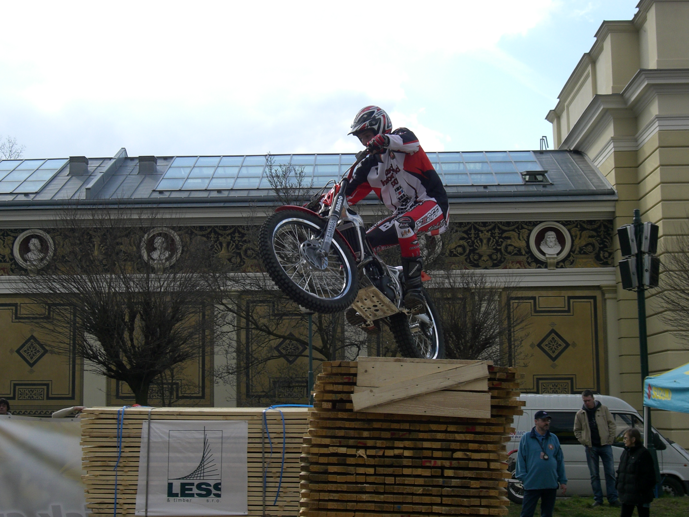 Motorcycle Trial rider during qualification on Pražské výstaviště in Holešovice. Praha 9. March 2007